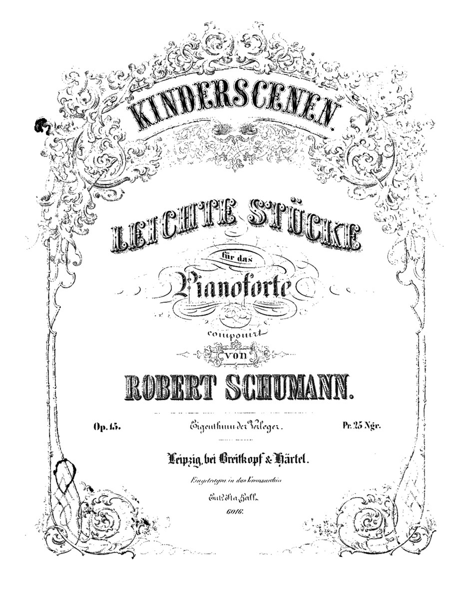 Score music sheets for the Schumann Kinderszenen